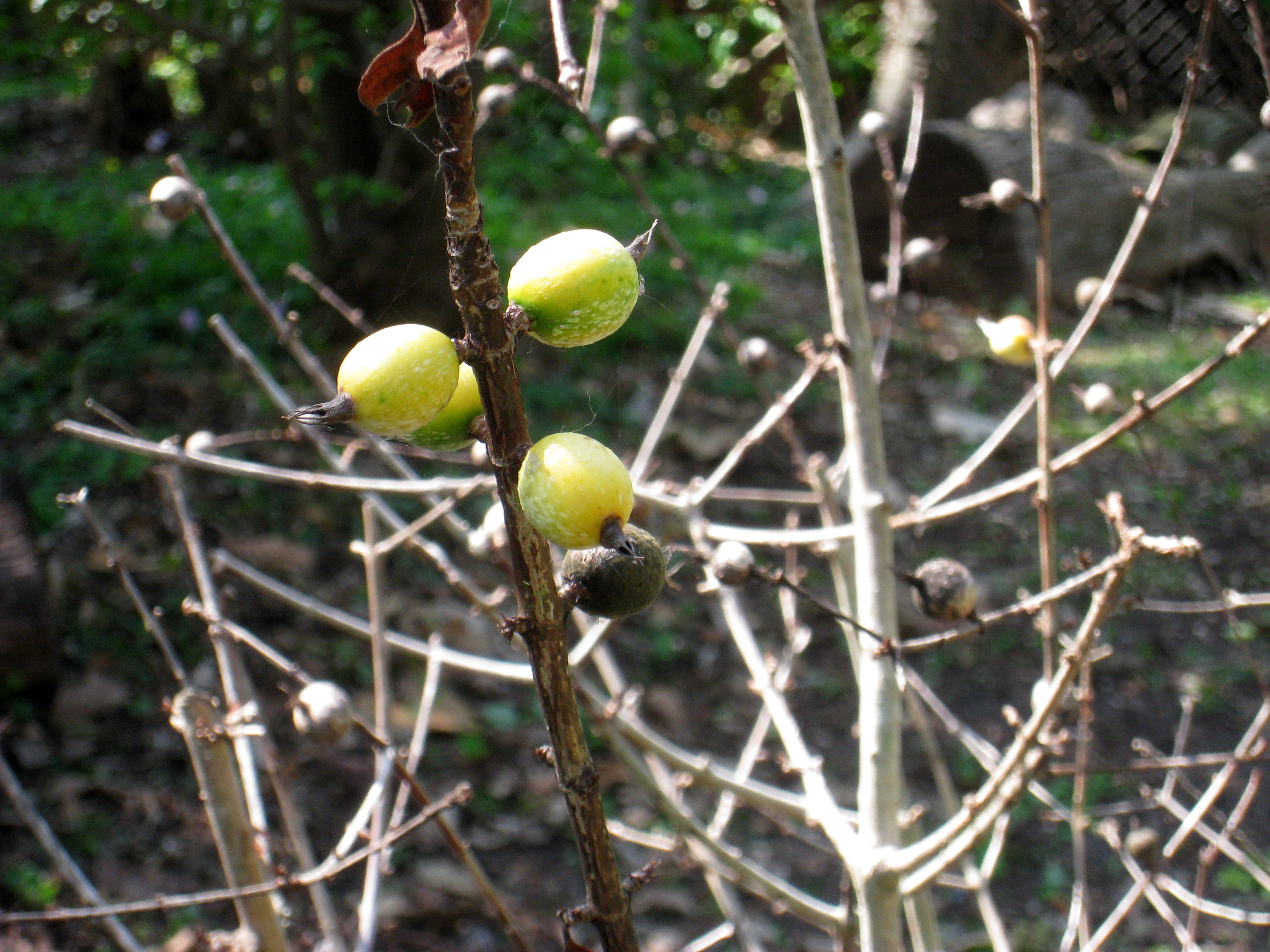 Randia formosa - The Kampong, Coconut Grove, Florida, USA.